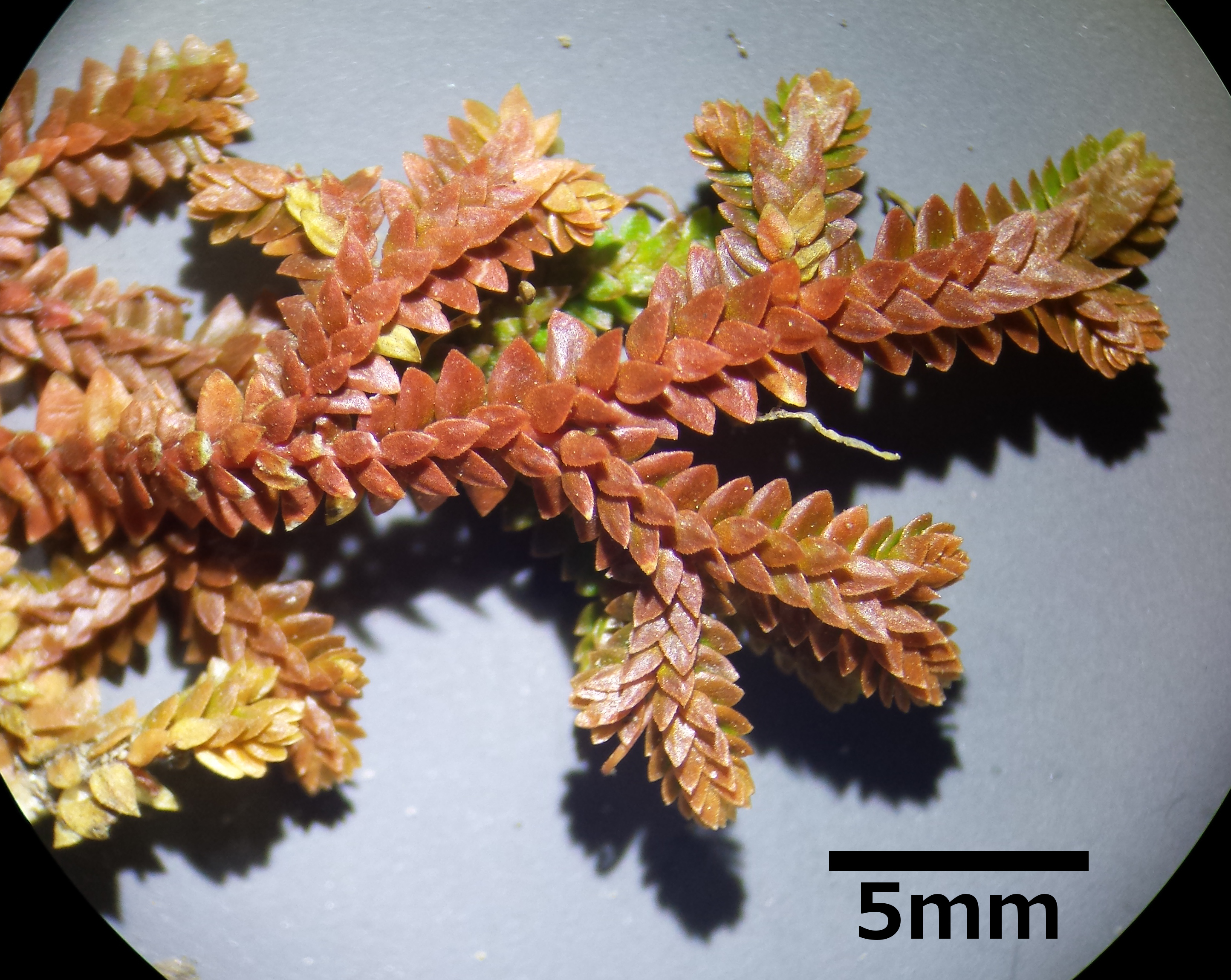 Habitus Taxon: Selaginella helvetica (sensu Fischer et al. EfÖLS 2008 ISBN 978-3-85474-187-9; det. M. A. Fischer 2014-03-22) Location: Blankhaufen, riparian forest near Traismauer, district Tulln, Lower Austria - ca. 190 m a.s.l. Habitat: dry grassland within riparian forest